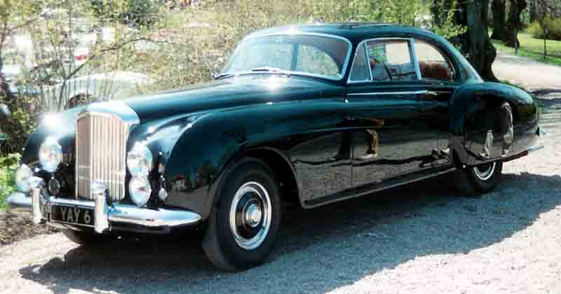 Bentley Continental (DVLA) 1952, 4556cc